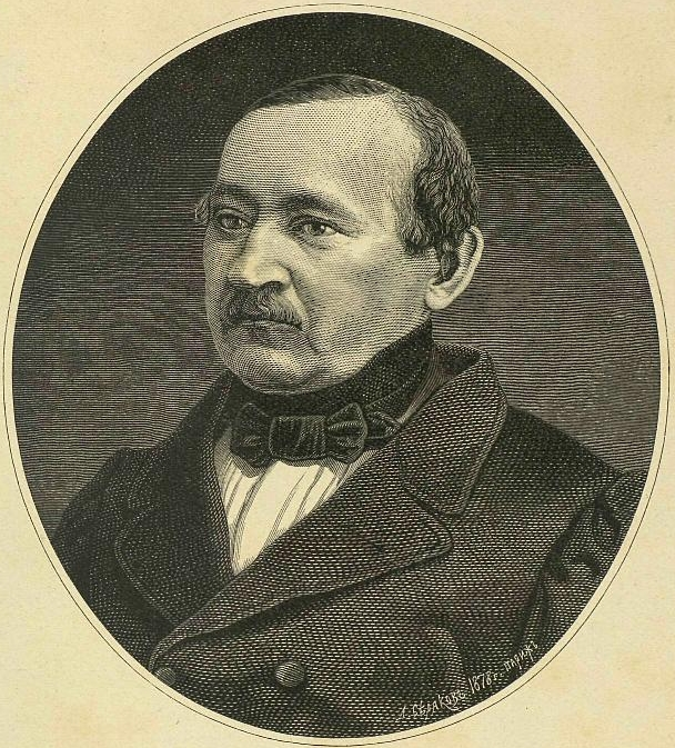 Bodyanskiy Osip Maximovich